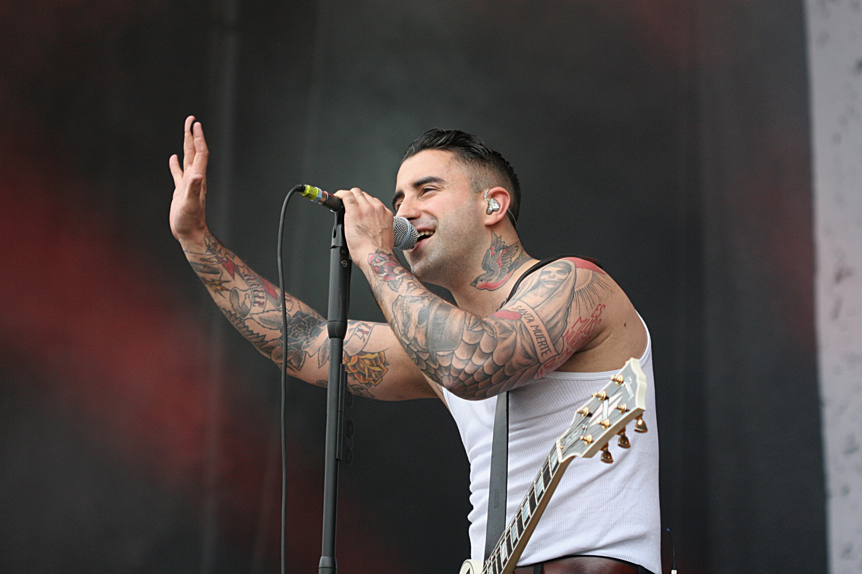 Sammy, singer and guitarist of german punk band Broilers, stands on the Alterna Stage of Rock im Park-Festival 2013. Festivalsommer This photo was created with the support of donations to Wikimedia Deutschland in the context of the CPB project "Festival Summer".